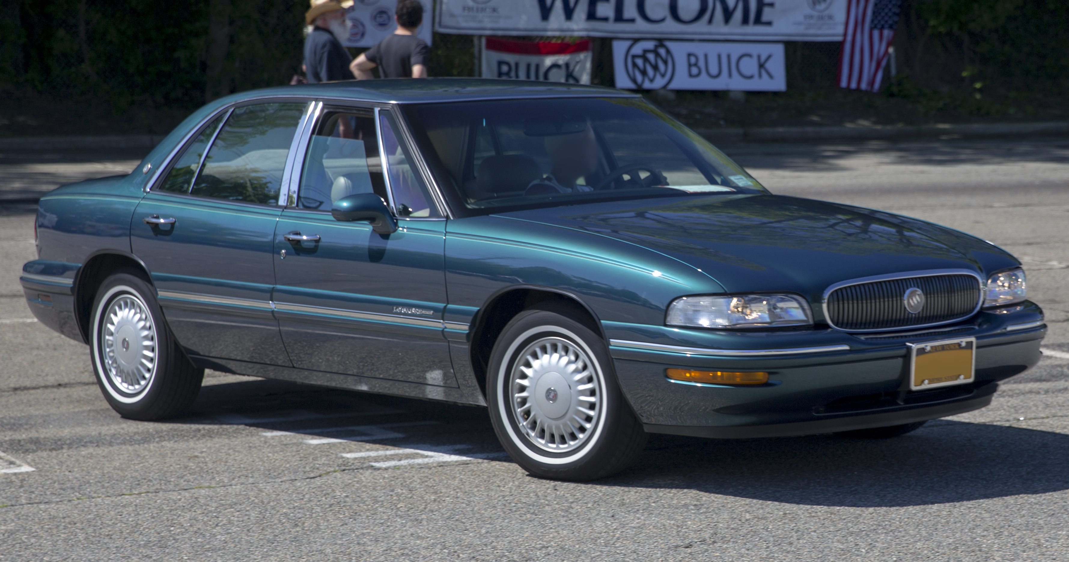 A 1998 Buick LeSabre Limited with about 12,000 miles on the odometer. Optional cassette player and leather seats. Emerald Green Pearl Metallic with Beige leather. 3800 Series II V6 engine, original tires!!!